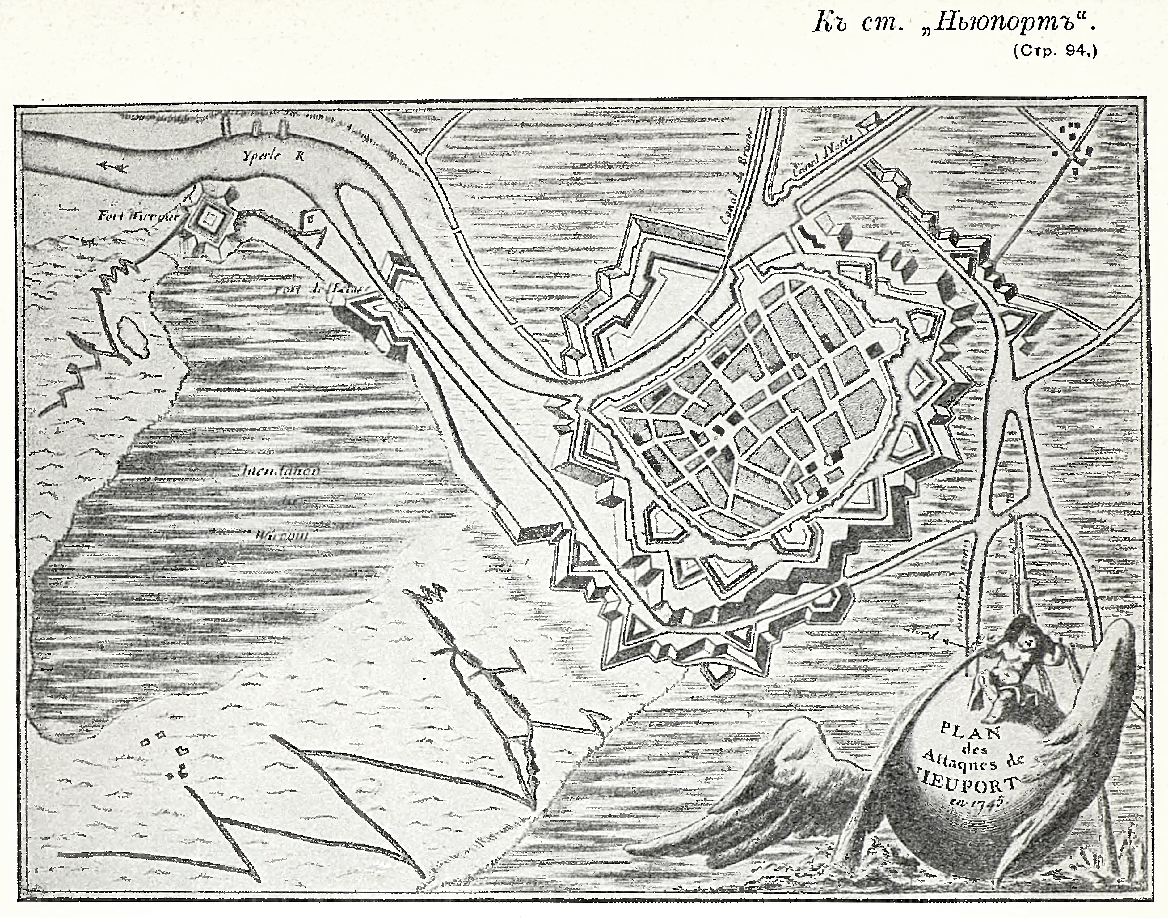 Old map of Nieuwpoort. Military Encyclopedia. Vol. 17 (Saint-Petersburg, 1914).